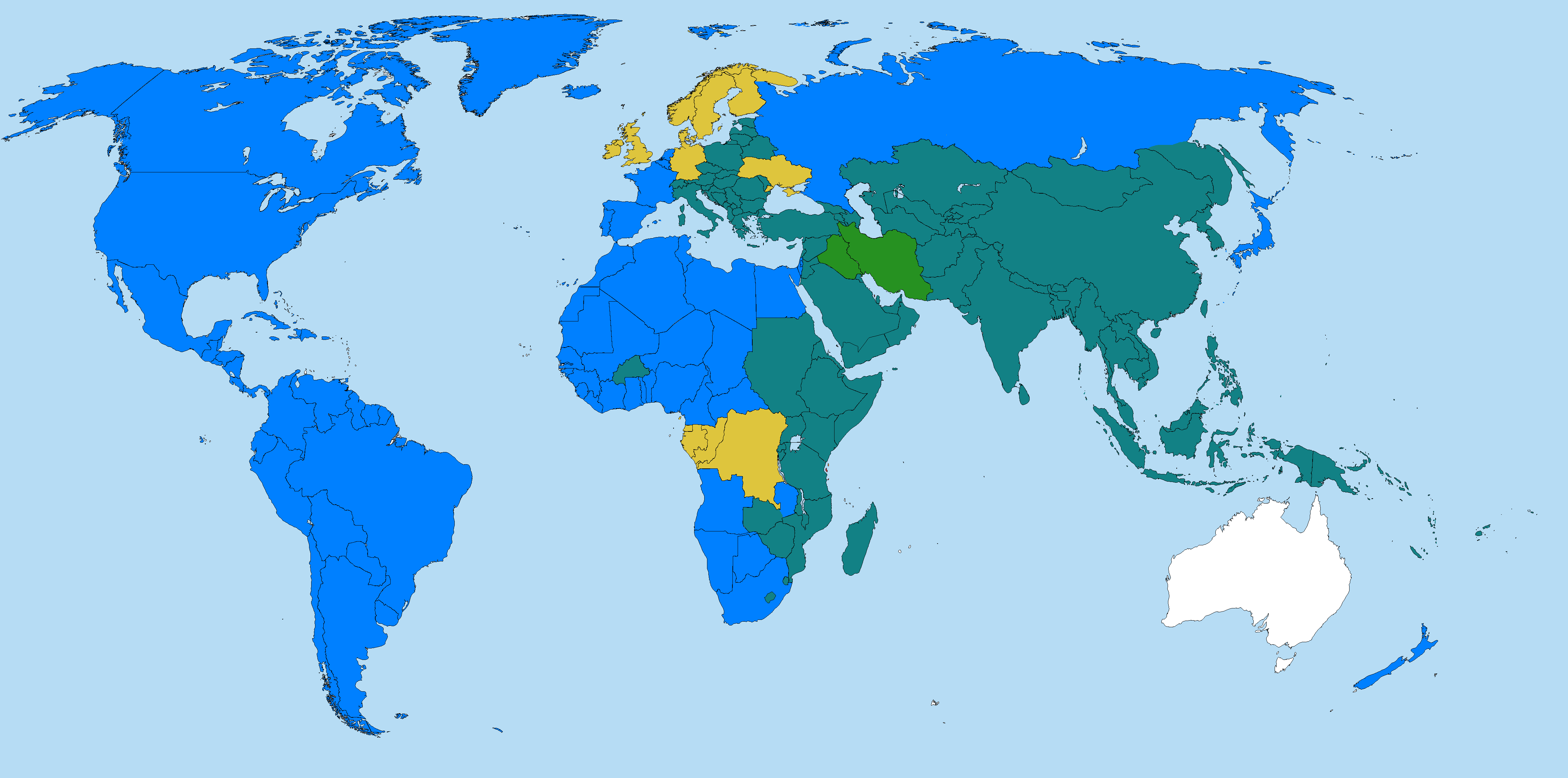 Code_Geass_map_3_(post-Japan_invassion)